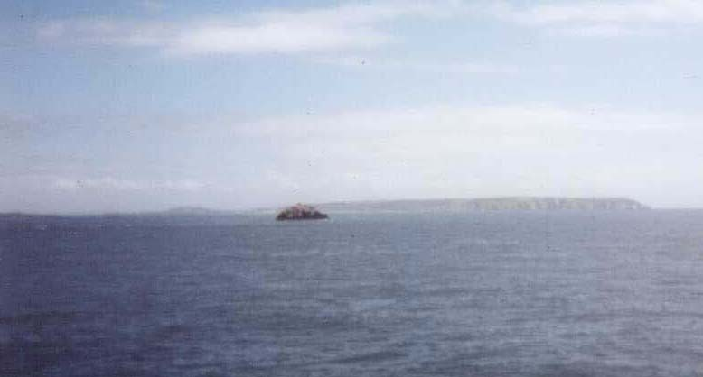 Ortac, in the Channel Islands. Alderney can be seen in the background. This photo was taken off the ferry to England, and is a mile or two away at least.